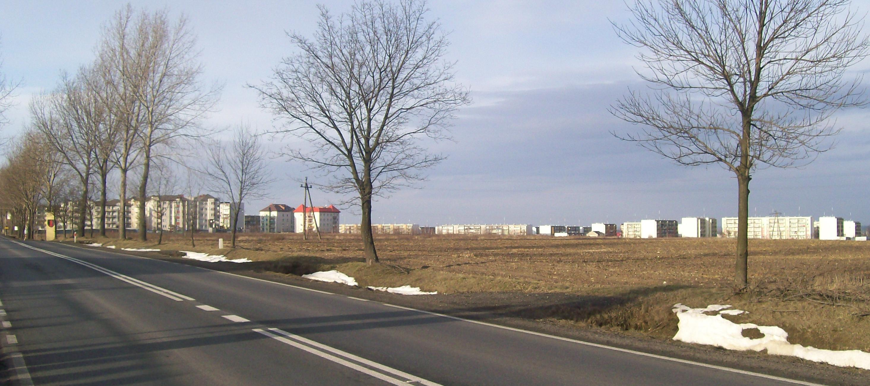 Stare Sady Housing Estate - View from national road 43